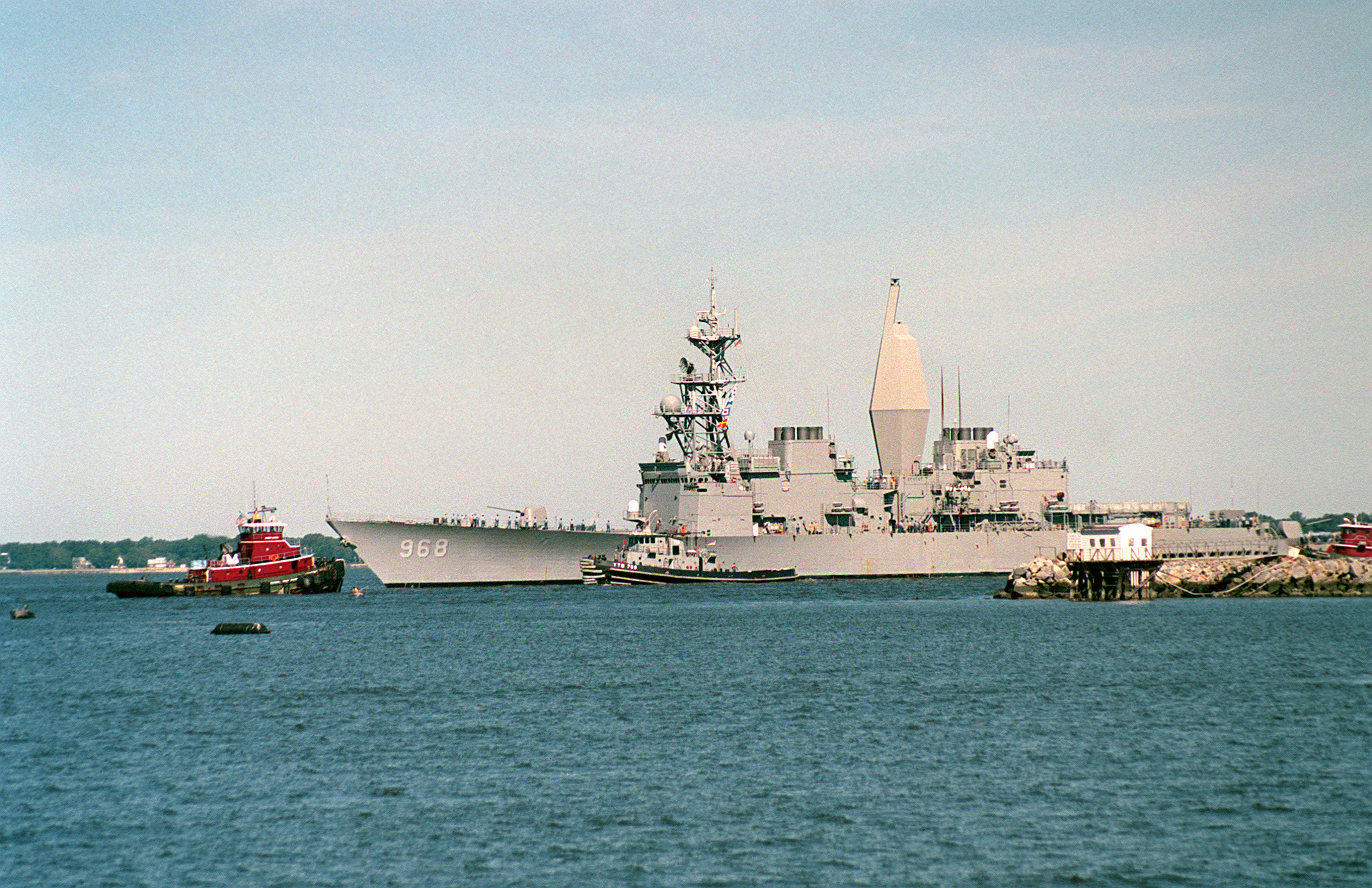 The Spruance Class Destroyer USS ARTHUR W. RADFORD (DD 968) returns to her home port at Norfolk, Virginia. The RADFORD, along With a large number of ships of the Second Fleet, had put to sea during the passage of Hurricane Floyd along the east coast. The RADFORD is equipped With the new Advanced Enclosed Mast/Sensor System (AEMS). Location: HAMPTON ROADSTEAD, VIRGINIA (VA) UNITED STATES OF AMERICA (USA)